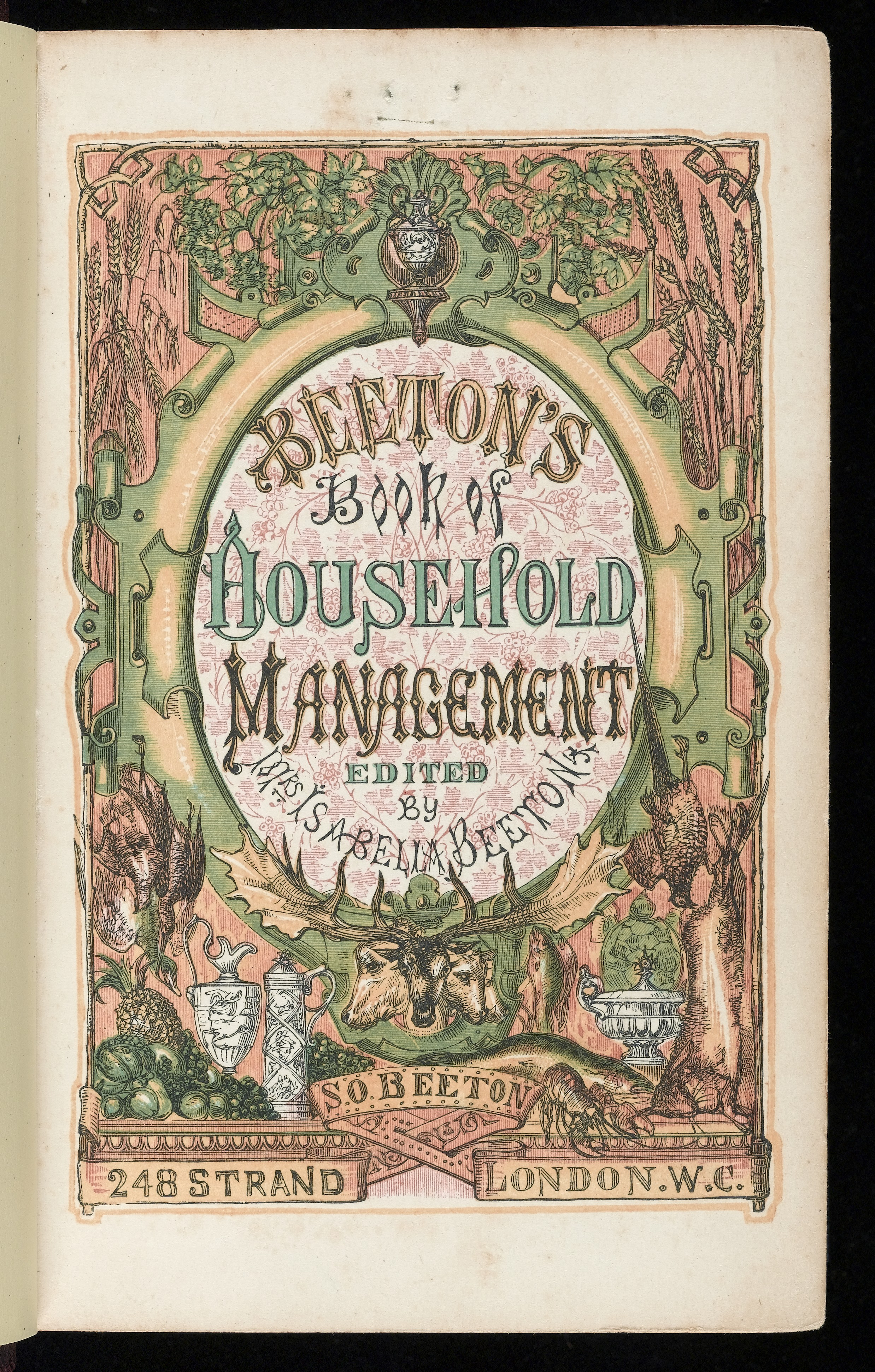 The colourful title page of Mrs Beeton's 'Book of Household Management'. This well-known guide to household management provided advice on how to deal with all level of servants, how to set the perfect table and how to cope with various medical ailments. General Collections Keywords: Beeton; Housework; Cooking; Cookery; Housekeeping